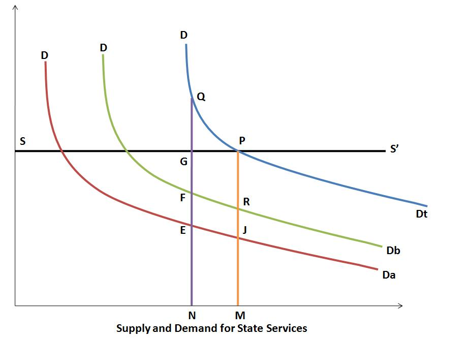 This graph describes Lindahl's model of taxation